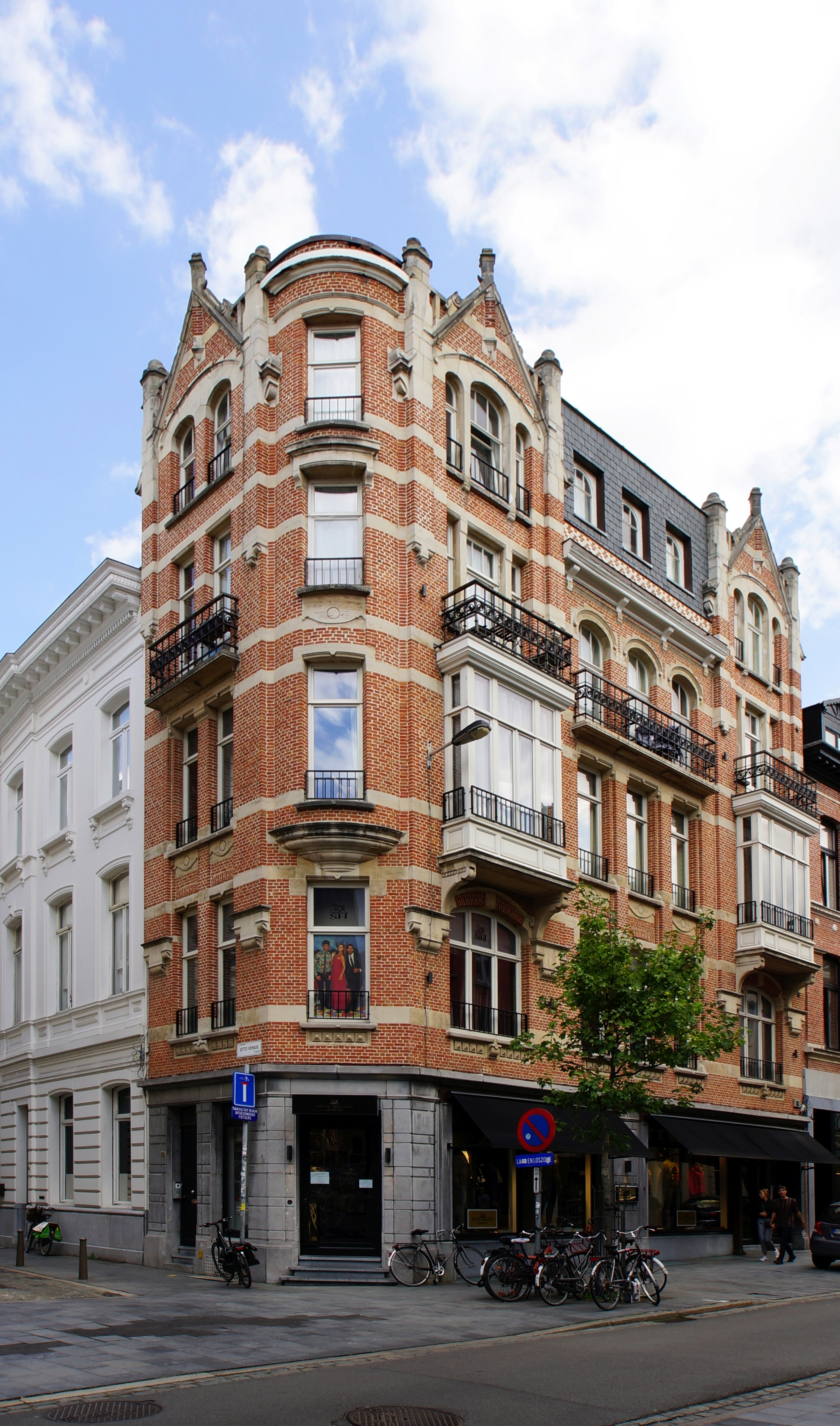 Otto Veniusstraat 31 Antwerpen (Belgium)_Work of architect Triphon De Smet